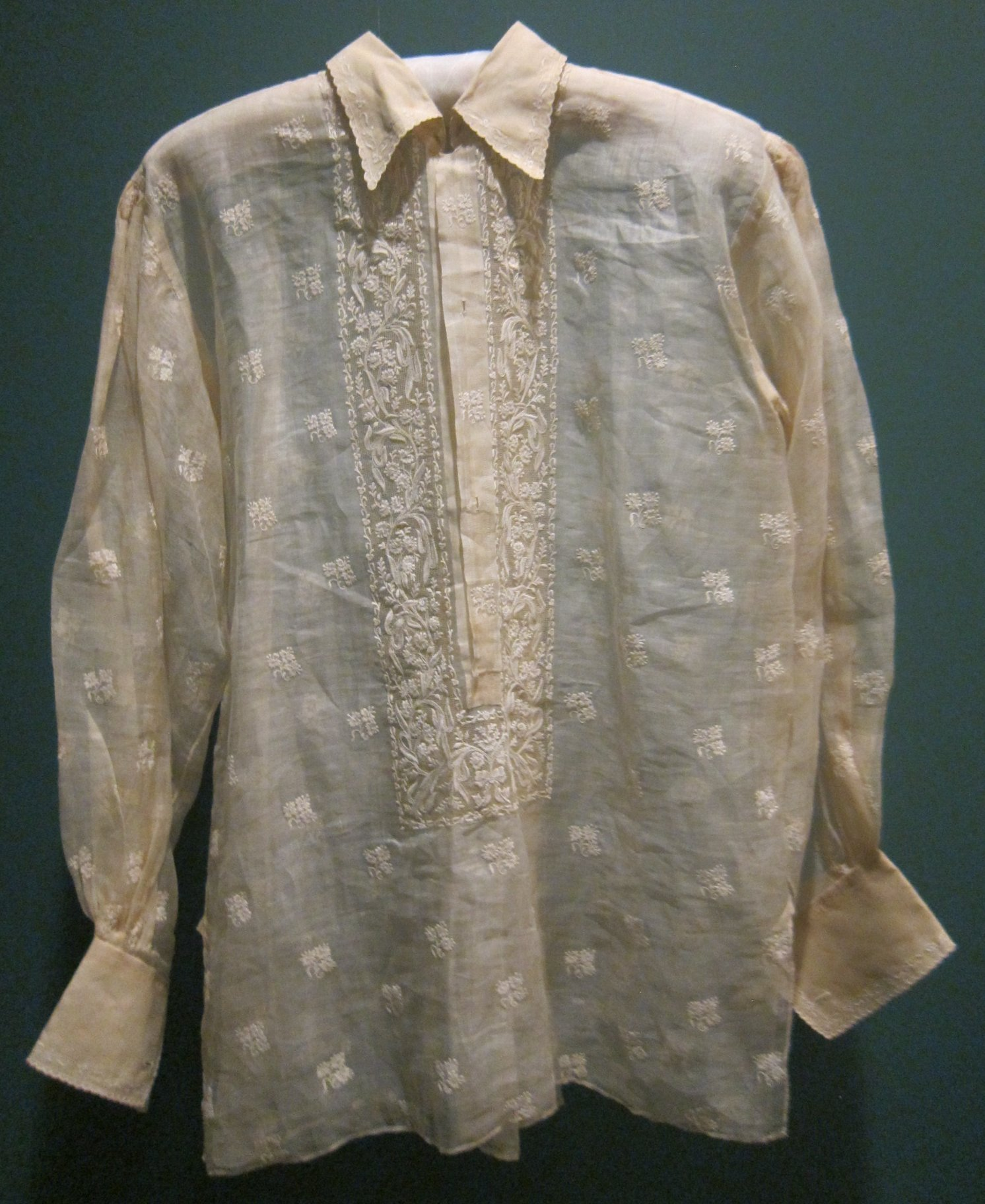 Man's shirt (barong) from Luzon, late 19th century, pineapple fiber (pina), plain weave, embroidery, Honolulu Museum of Art